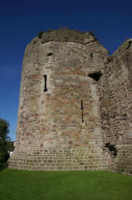 Rothesay Castle, Rothesay, Bute, Scotland. Pigeon Tower (NW tower).